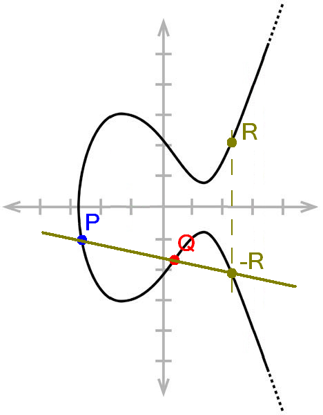 Adding points P, Q on elliptic curve